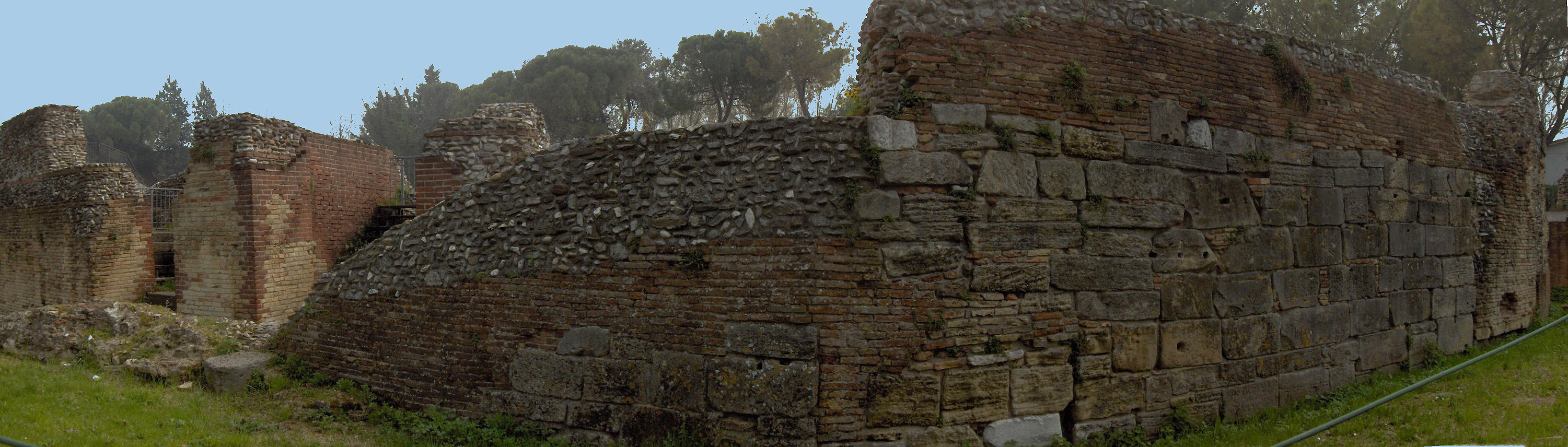 panoramic view on the remains of the Roman amphitheatre of Rimini, Italy